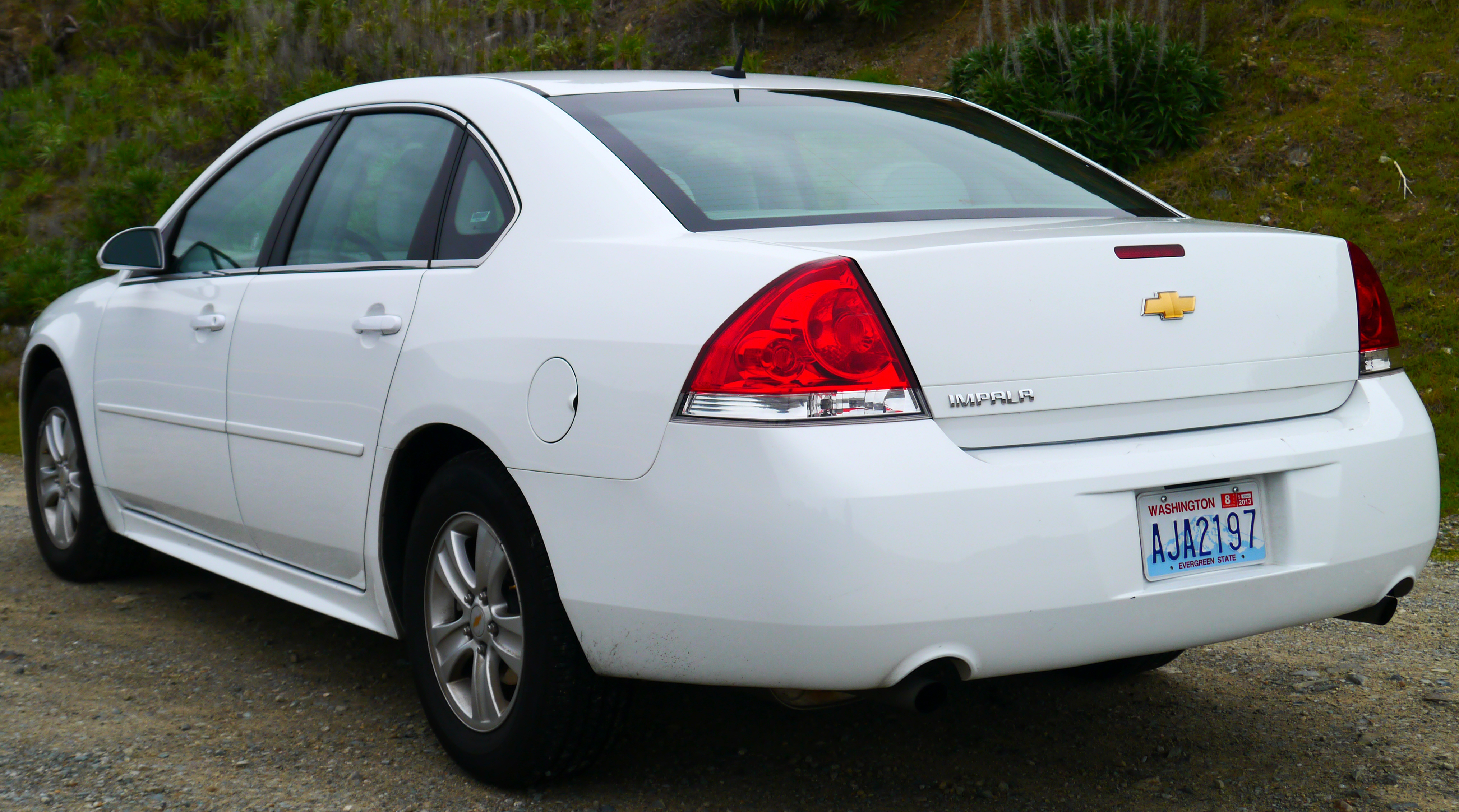 2013 Chevrolet Impala LS. My ride for that week: after a few miles driving it, I still felt like an undercover cop / FBI agent. It is not an ugly car but there is nothing pretty about it either. Bland design not to alienate any potential customers? Renault has tried this formula for the last decade and it did not work. They seem to have reverted to some more daring style though, adding a bit more character to the front-ends. 3.6 L V6 engine (225 kW; 302 bhp).